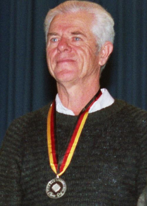 Boris Katalymov, Senior Chess World Championship 1995 at Bad Liebenzell, Photographer Gerhard Hund.